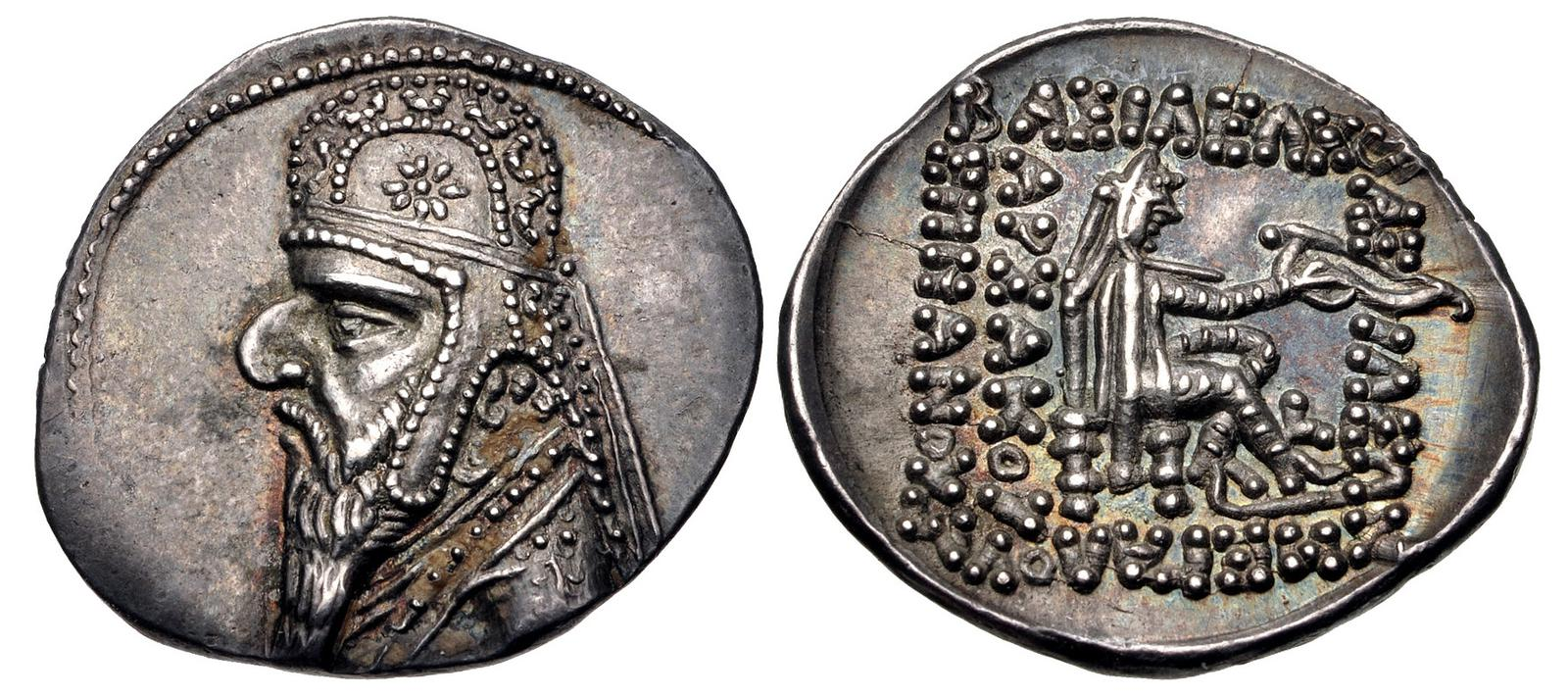 Coin of Mithridates II of Parthia, Rhages mint.